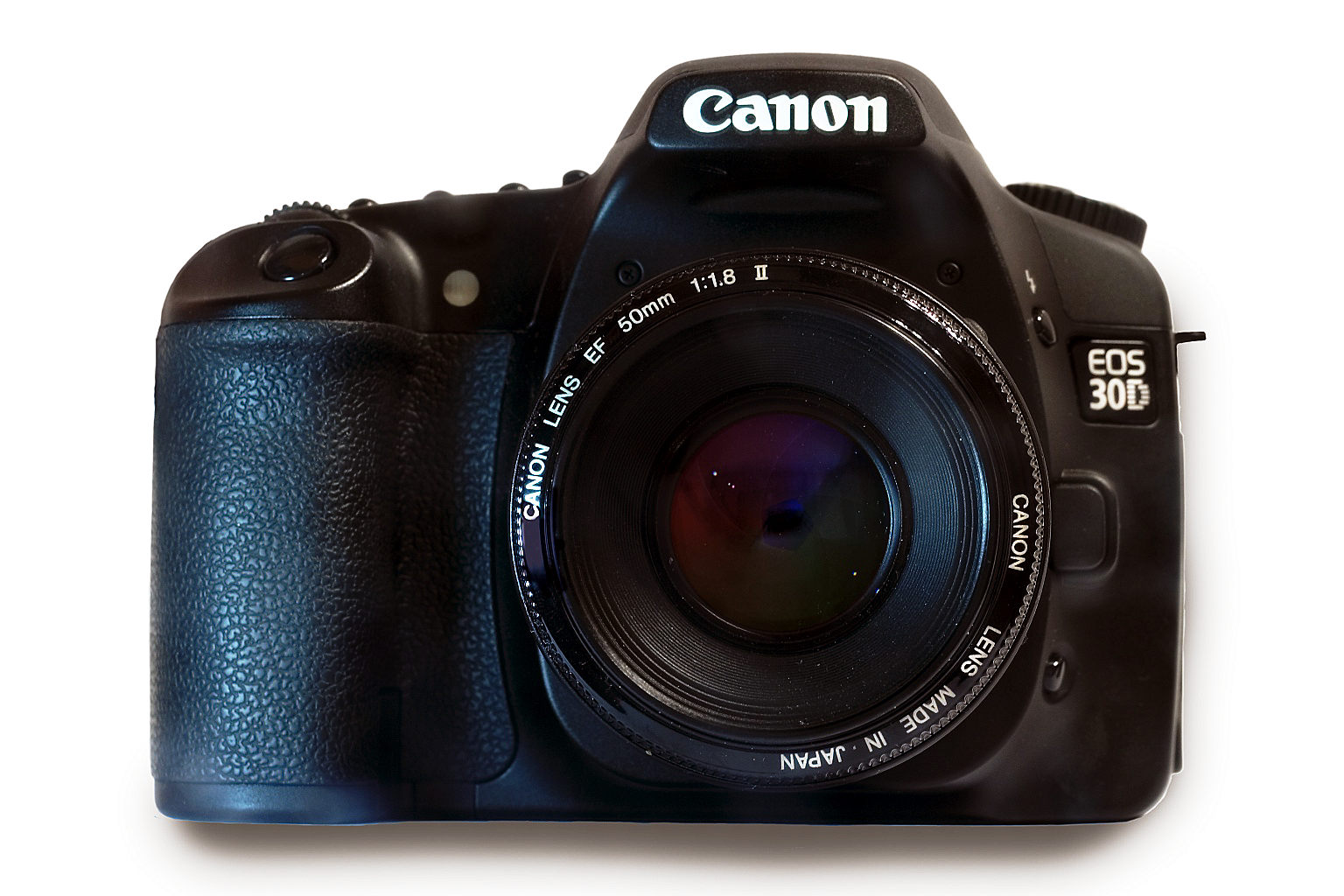 Canon EOS 30D